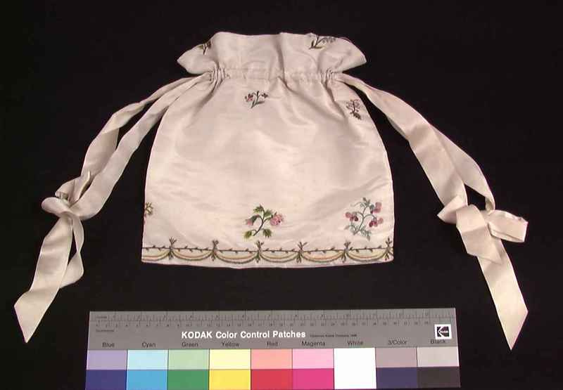 White silk reticule with flower decor and ribbon drawstring. Used in Oslo, Norway; acquired by Norsk Folkemuseum in 1904.